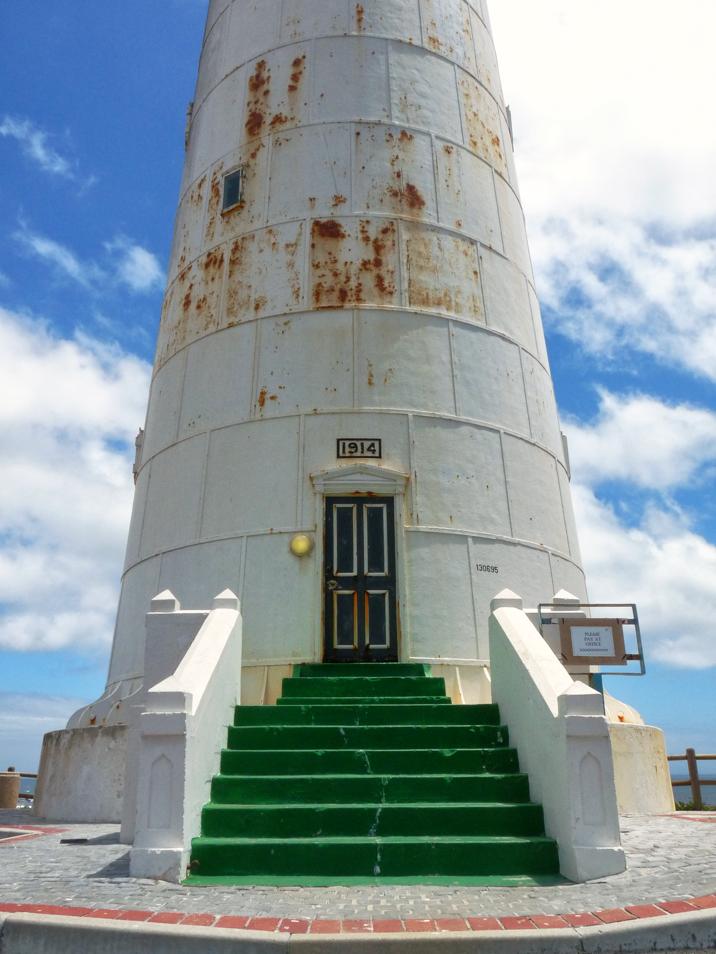 Slangkop Lighthouse is a lighthouse near the town of Kommetjie, near Cape Town, South Africa. Construction was due to be completed in 1914 and a brass sign was commissioned for this date, but due to the First World War the lighthouse wasn't completed until 1919. This media shows a South African Protected Site with SAHRA file reference NEW.